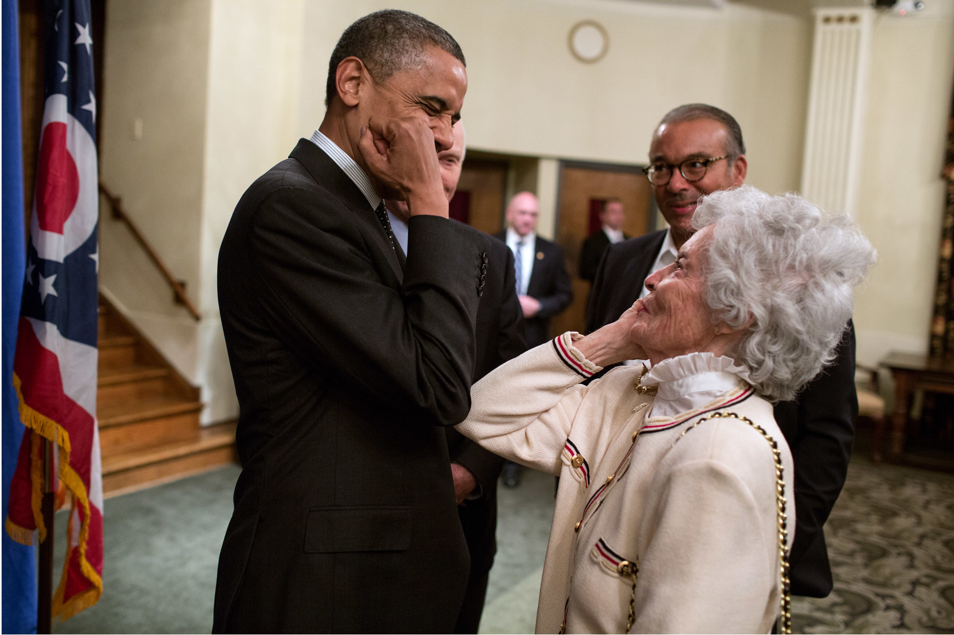 President Barack Obama and Annie Glenn, wife of former Senator John Glenn, greet each other following an event at The Ohio State University in Columbus, Ohio, Oct. 9, 2012. (Official White House Photo by Pete Souza)